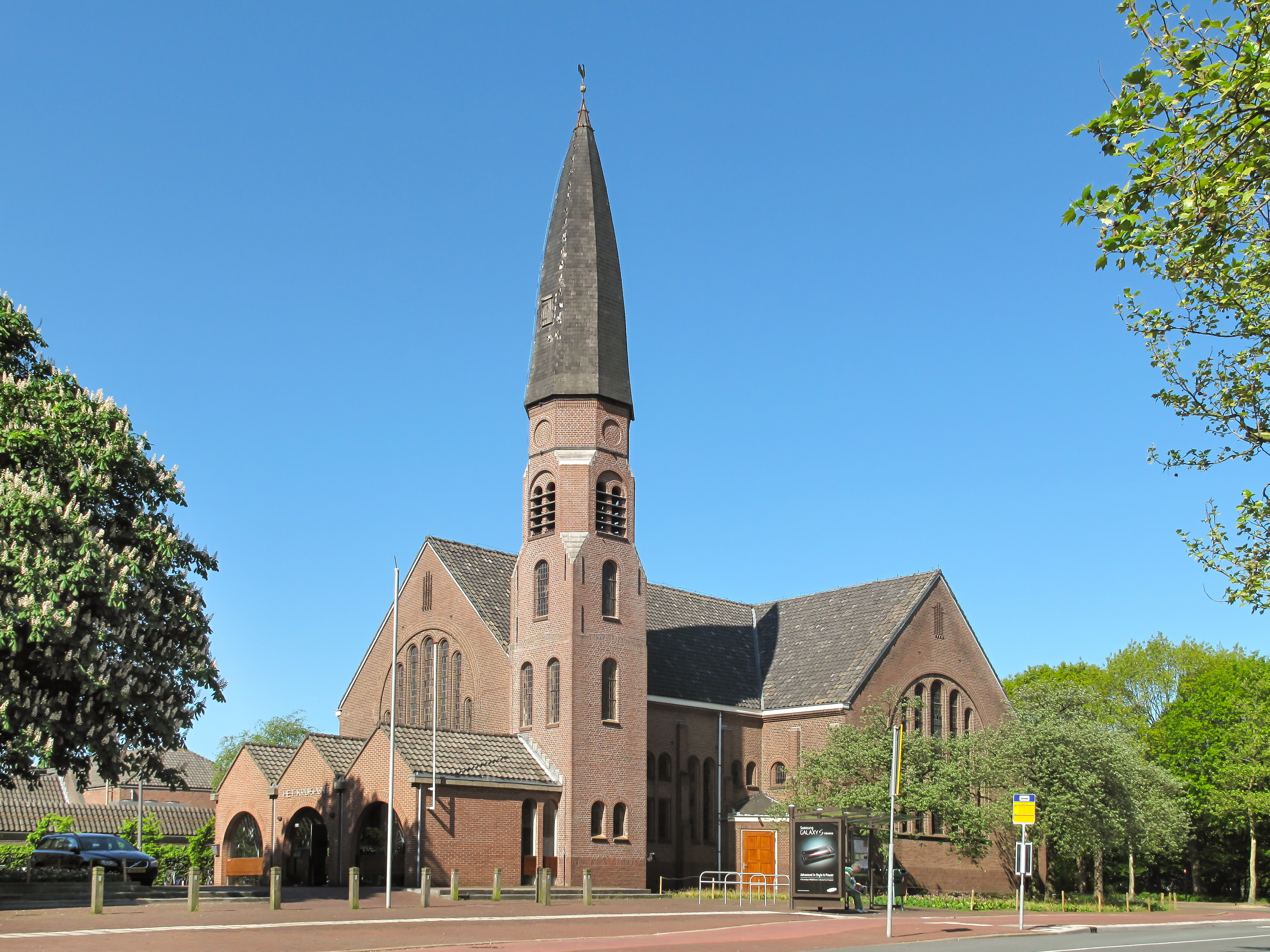 Voorschoten, church